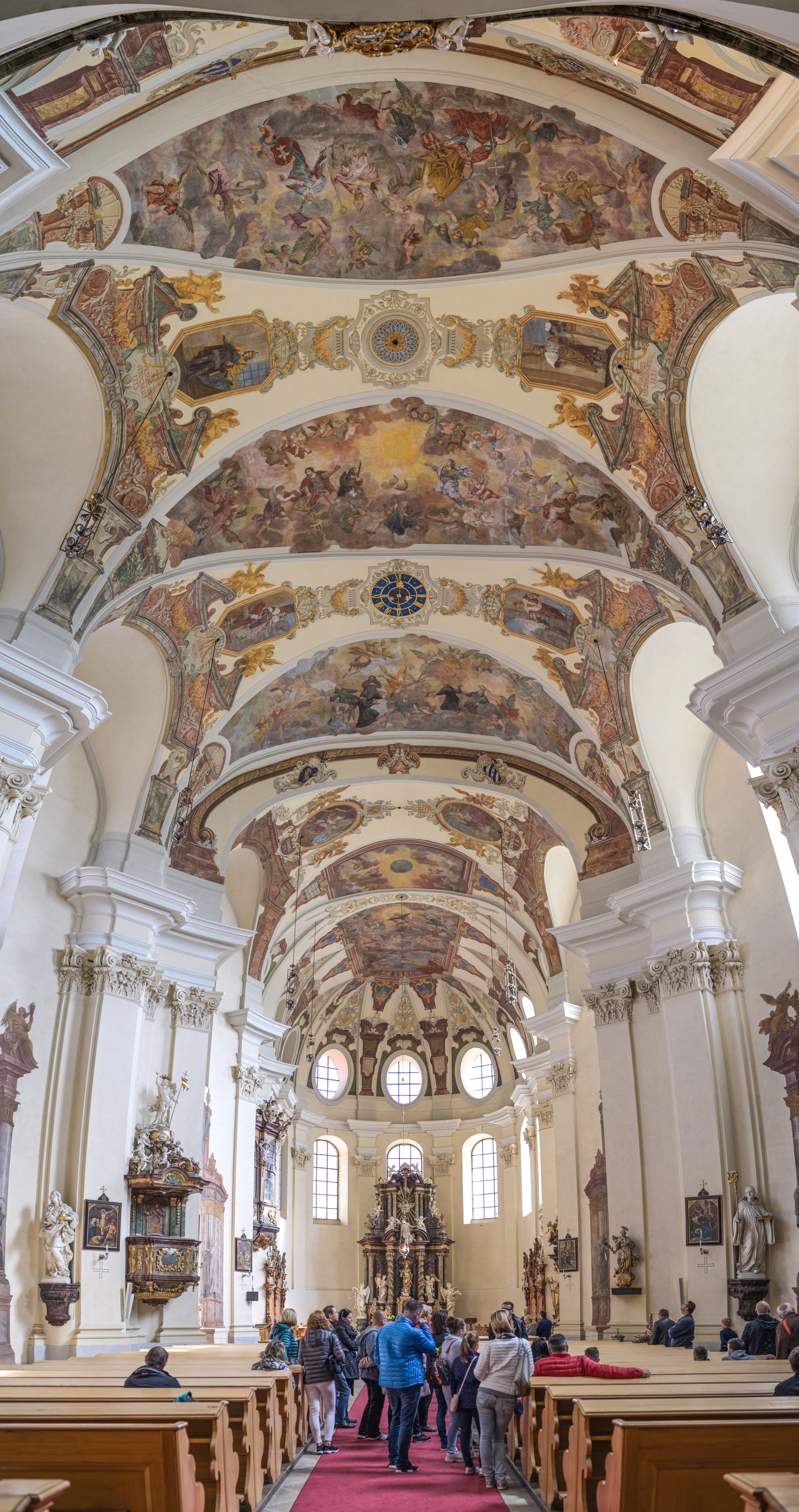 Prague, Czech Republic, October 2018